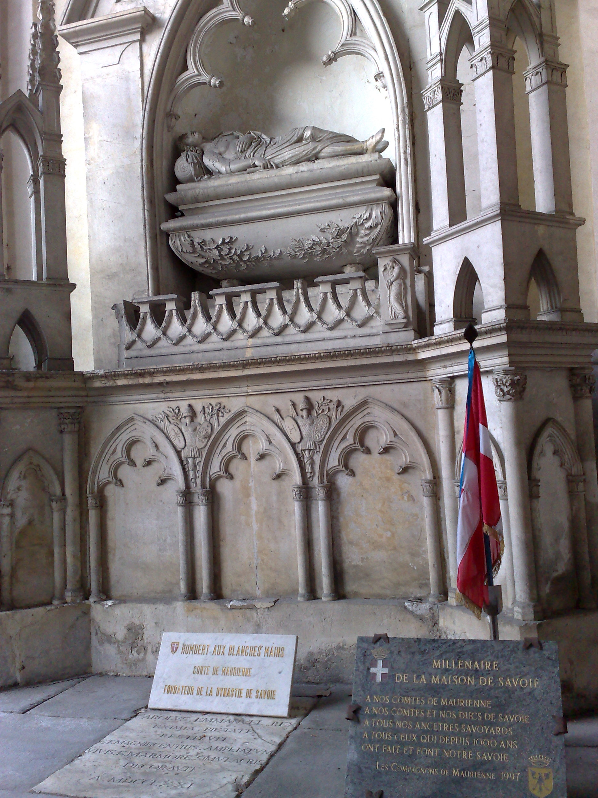 Tomb or Cenotaph of Humbert I "Whitehand" of Savoy in the cathedral of Saint Jean de Maurienne.